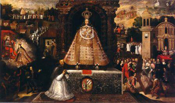 The Virgin of Bethlehem in the city of Cusco